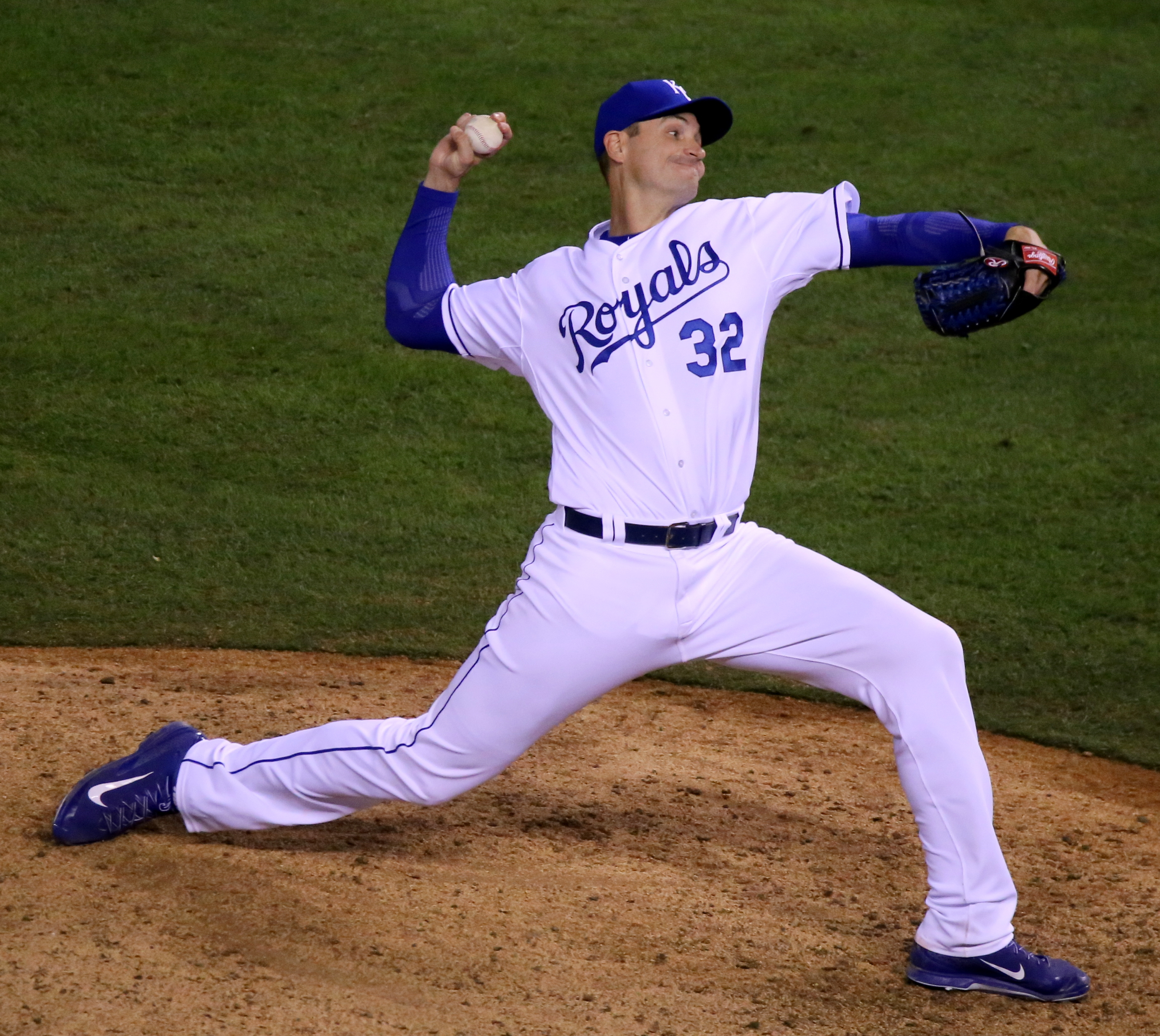 Chris Young